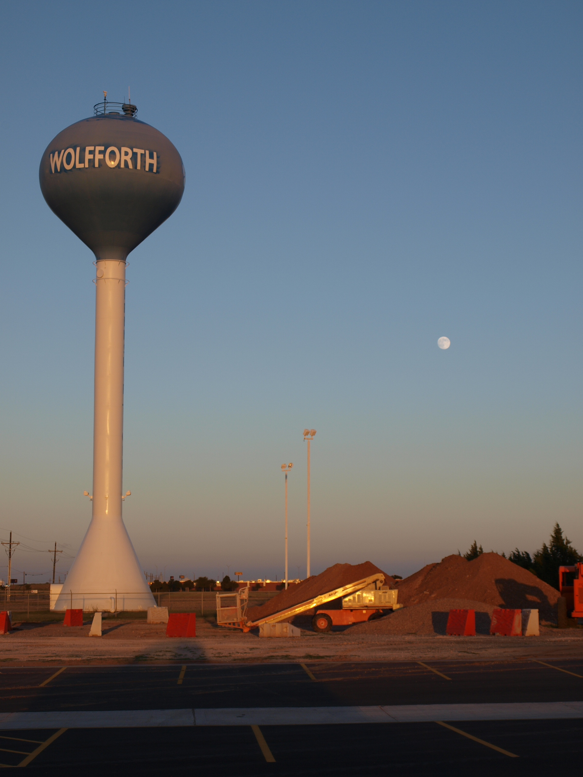 Water tower in Wolfforth, Texas